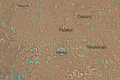 Mars Chart 12: Arabia quadrangle map. The small, colored rectangles represent image footprints for the narrow angle camera on the Mars Global Surveyor. Some are about 1 mile wide, the otheers are about 2 miles wide. The map was made by the U.S. Geological survey for NASA.